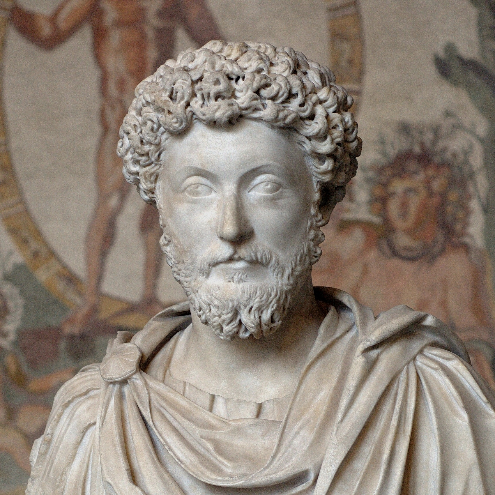 Bust of Marcus Aurelius (reign 161–180 CE).